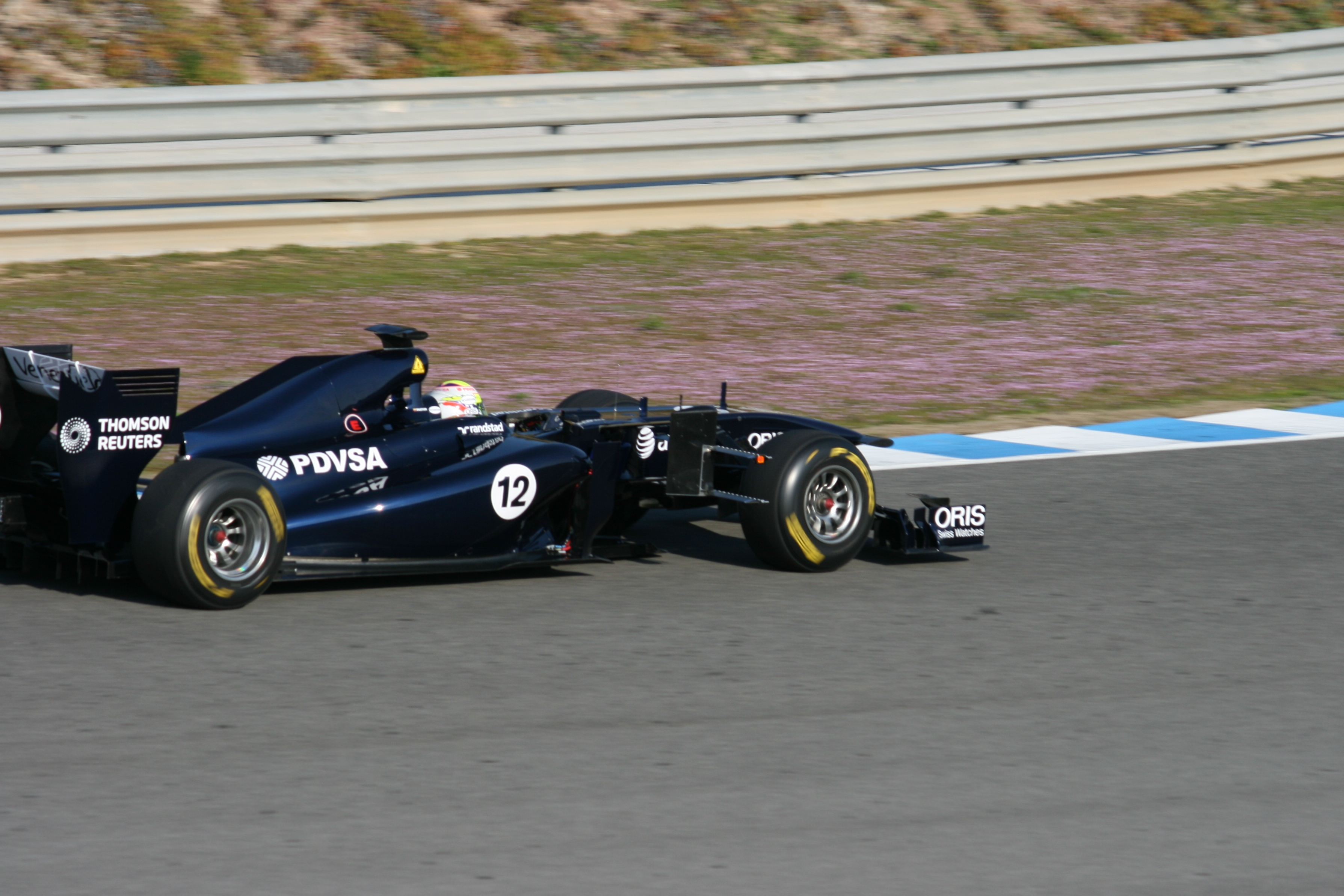 Pastor Maldonado testing for Williams at Jerez.